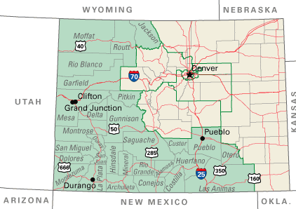 From